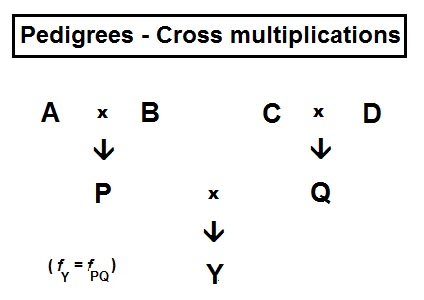 Pedigree cross-multiplications